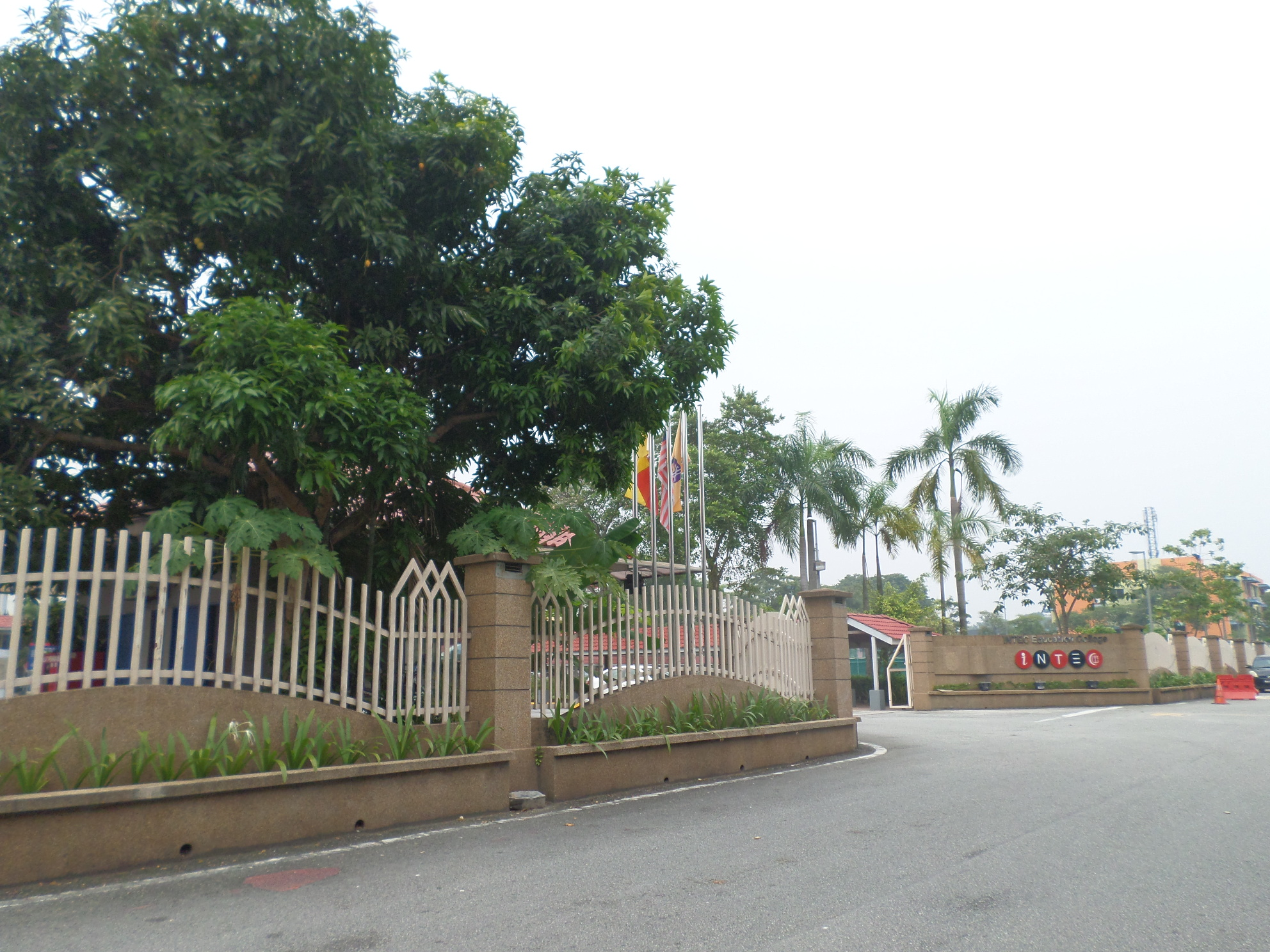 International Education College, Shah Alam, Petaling, Selangor, Malaysia